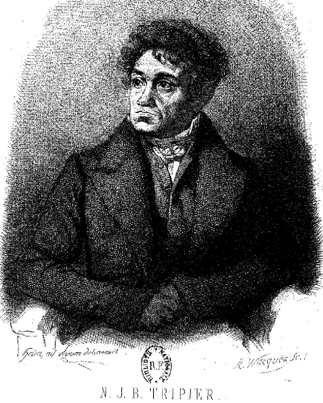 French lawyer an deputy Nicolas Jean Baptiste Tripier, by Heim, graved by Wacquez